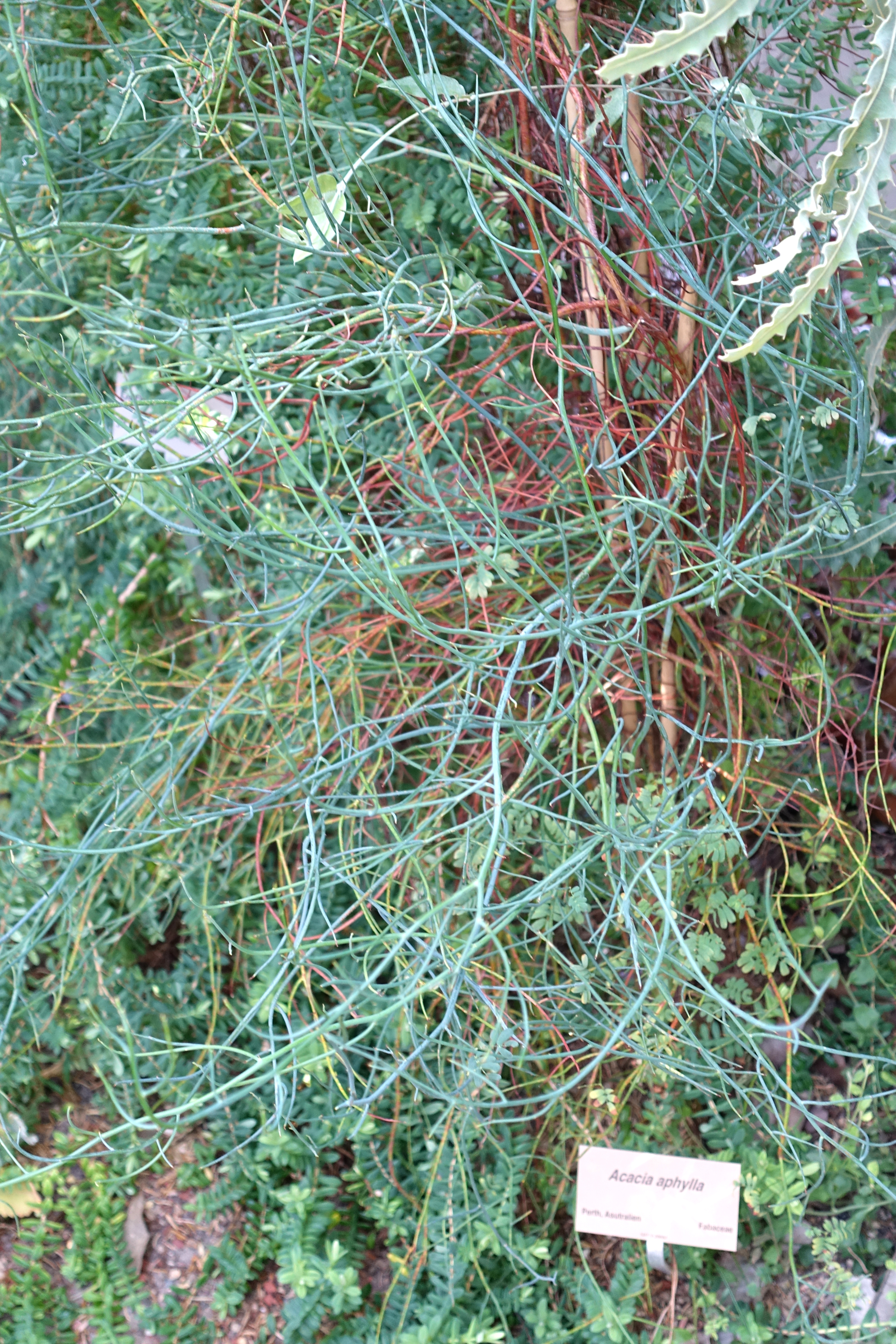 Botanical specimen in the Bergianska trädgården - Stockholm, Sweden.